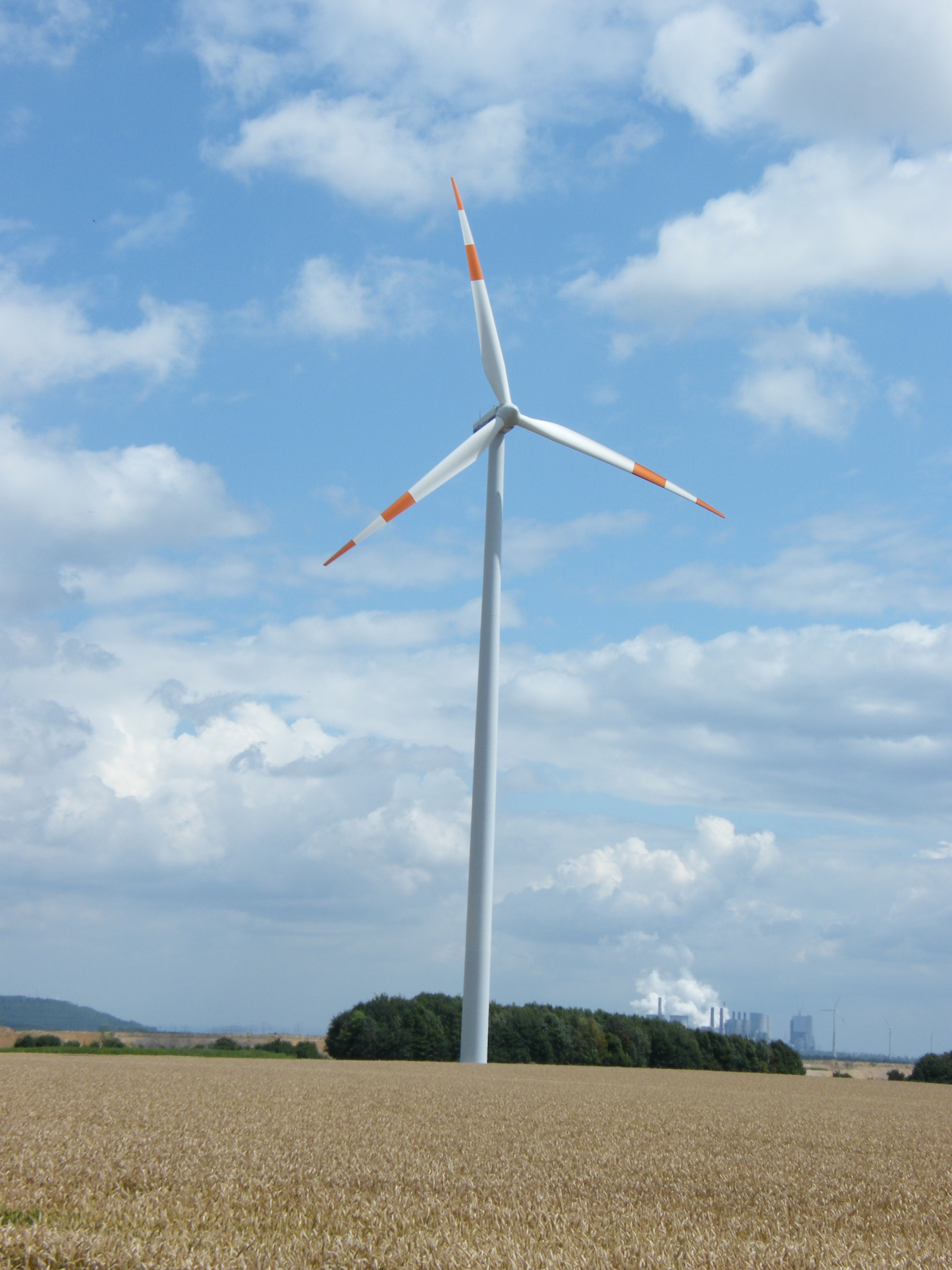 wind power facility near Jackerath/Germany